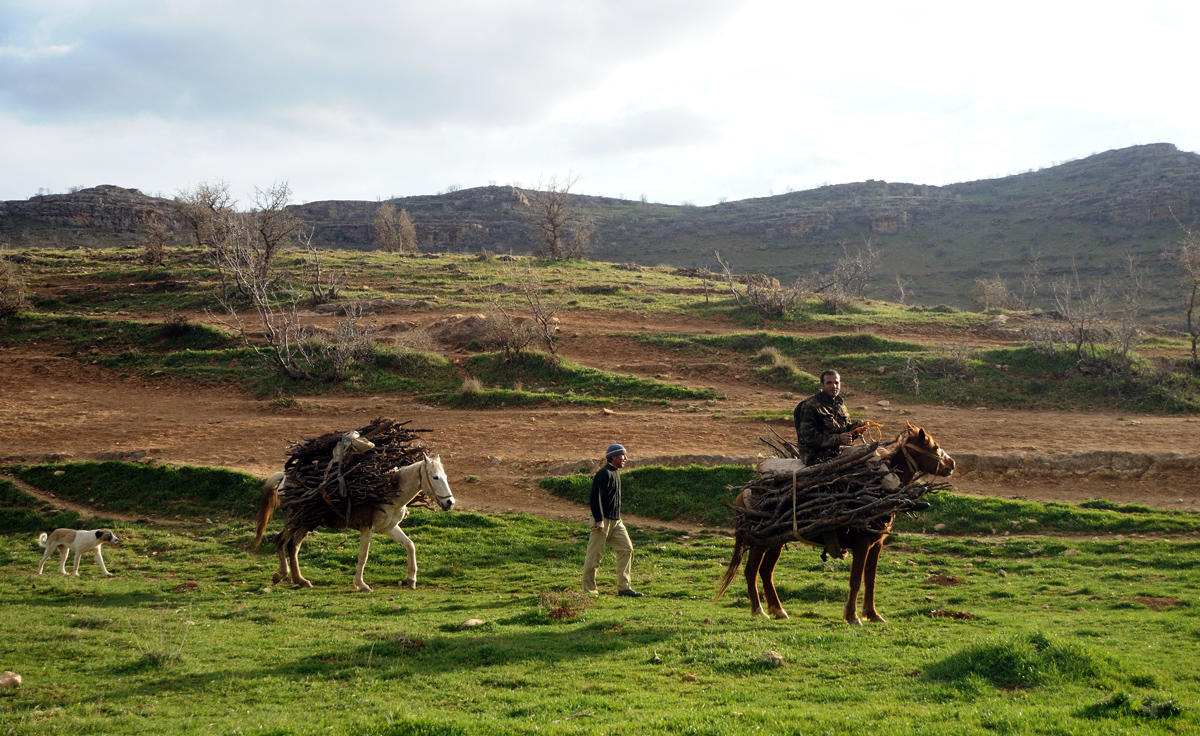 Qillit/Stewr